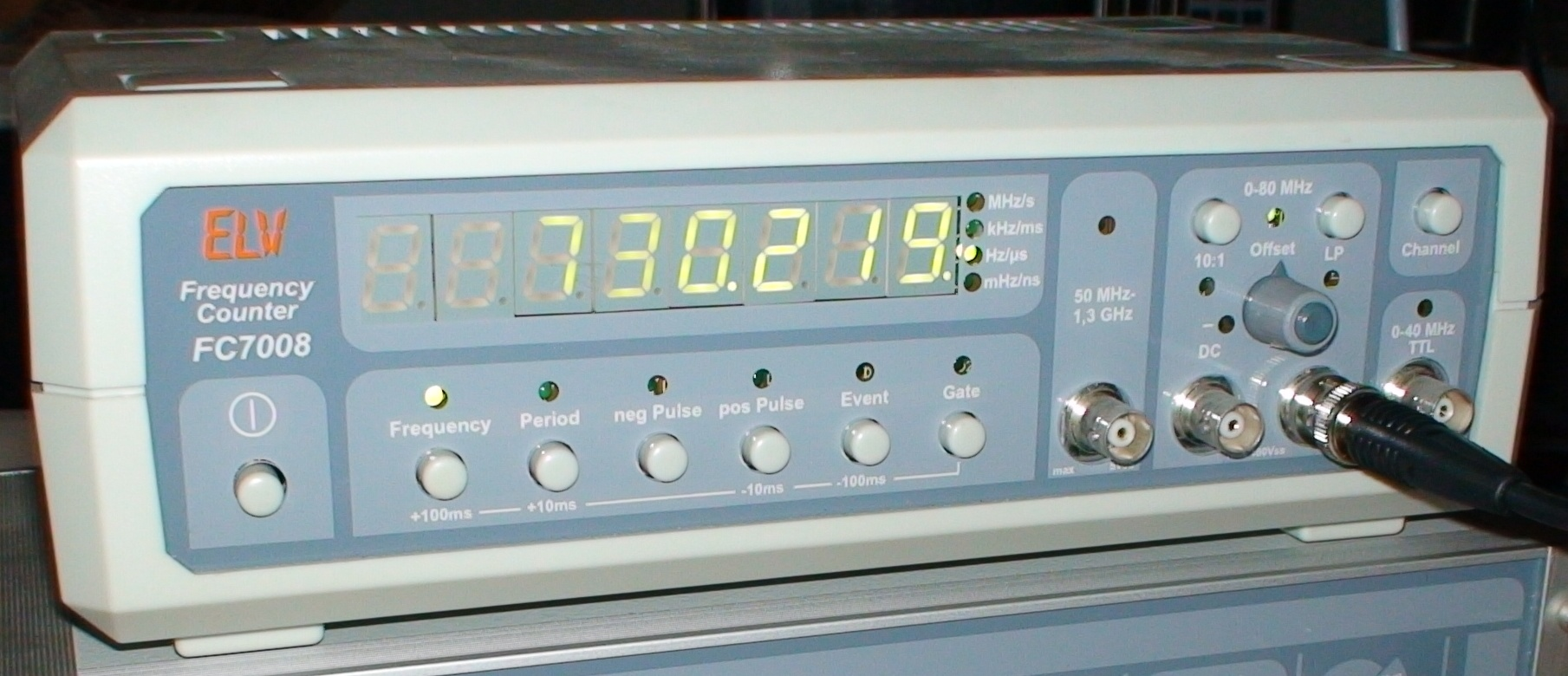 Frequency counter; ELW FC7008